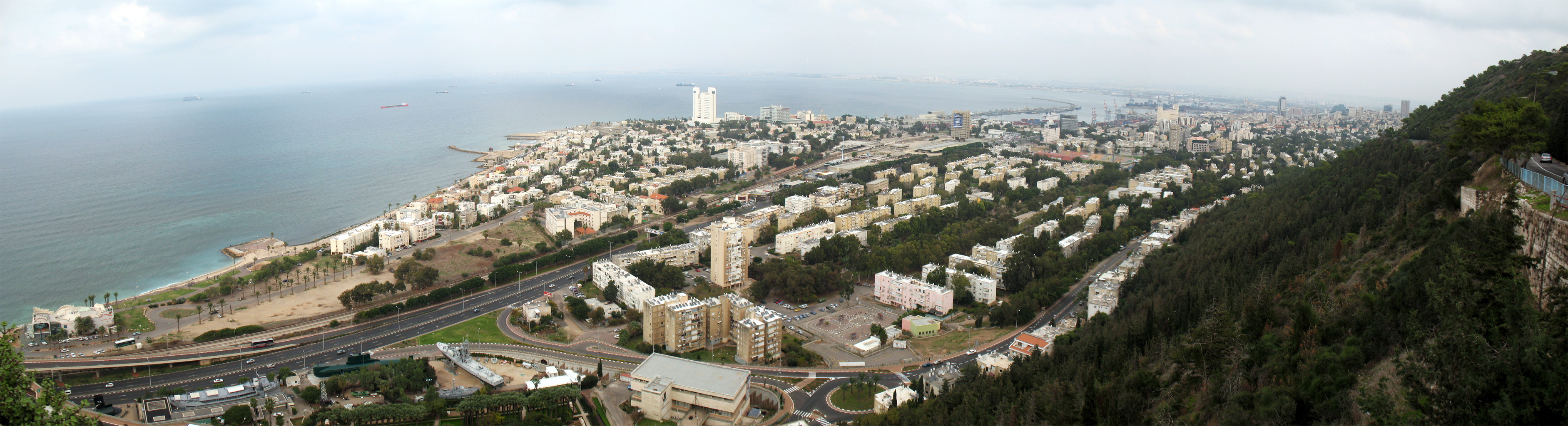 Panorama of the Bat Galim neighborhood in lower Haifa, Israel Česky: Panorama čtvrti Bat Galim v dolní Haifě, Izrael.